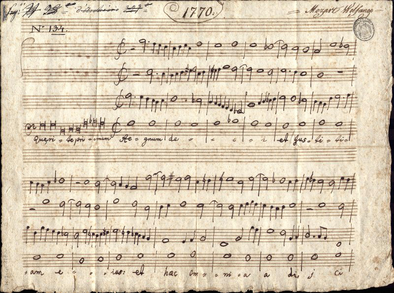 Wolfgang Amadeus Mozart, Antiphon Quaerite, Bologna 1770; composition exercise; now in the Museo internazionale e biblioteca della musica di Bologna